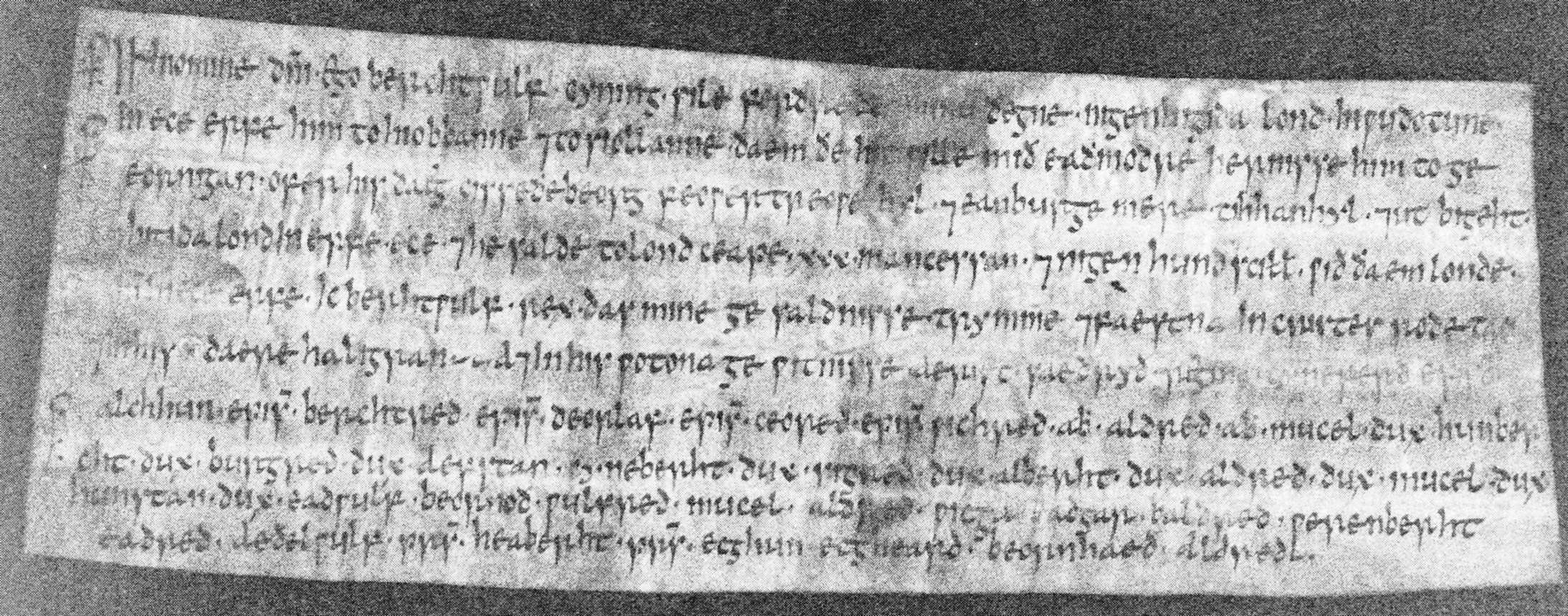 A charter of King Beorhtwulf of Mercia, c. 845 (S 204).